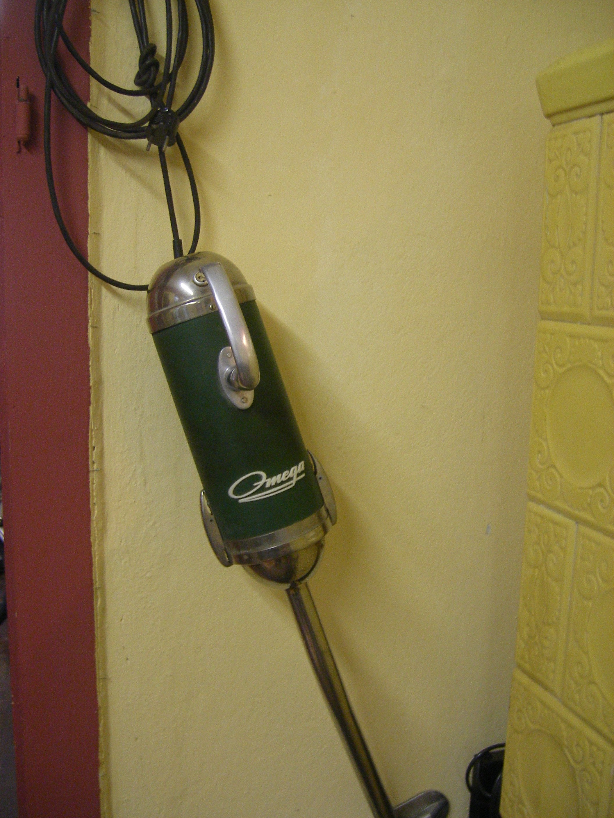 Vacuum cleaner "Omega"